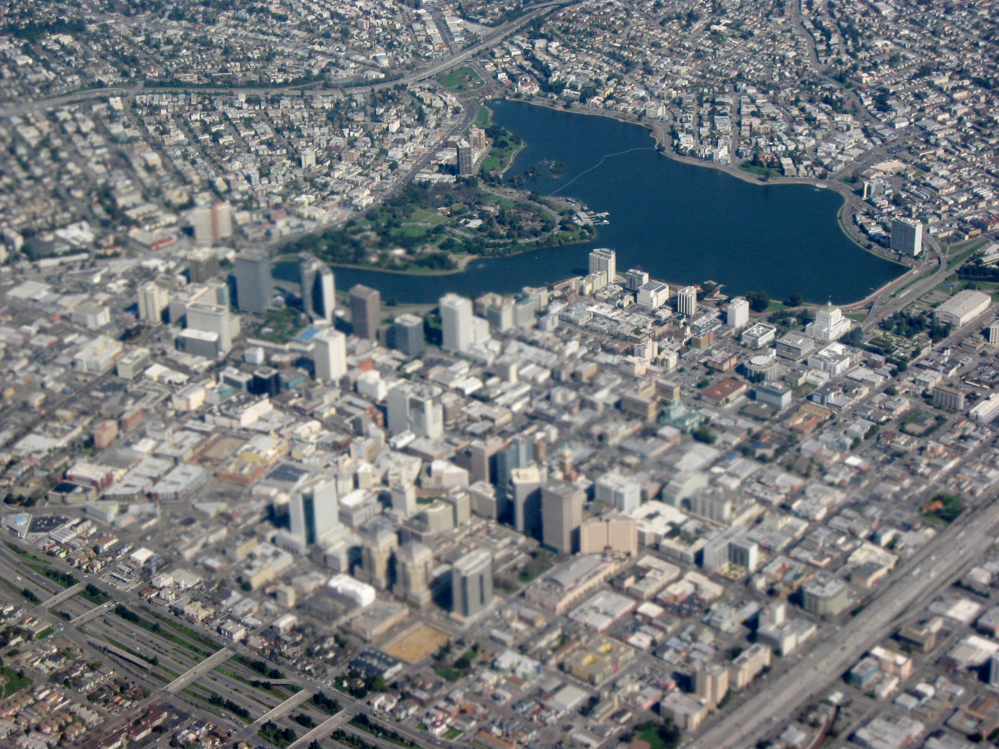 Closeup aerial view of Downtown Oakland, Lake Merritt, and Lakeside Park in Oakland, California.